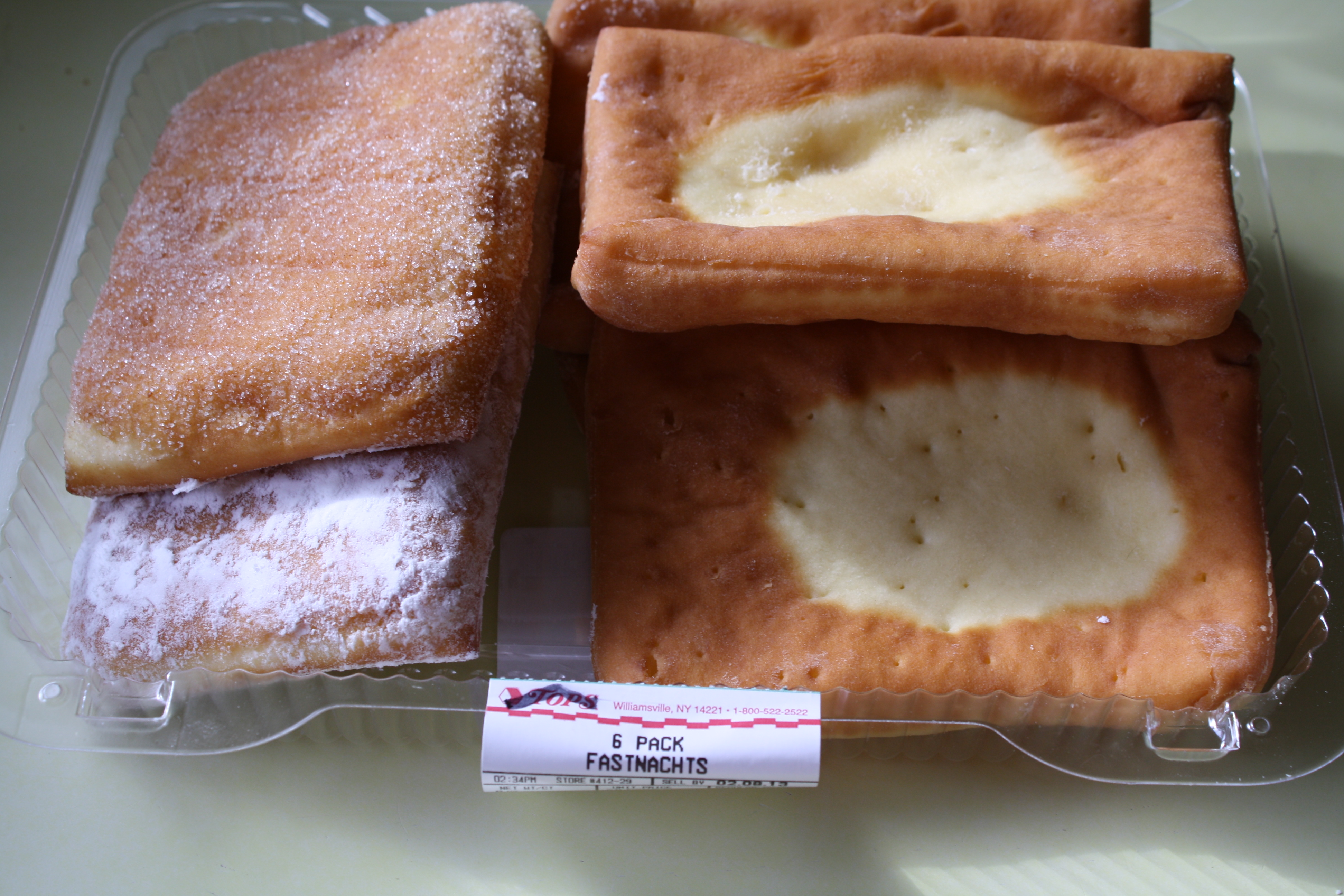 A six-pack of assorted rectangular fasnacht pastries, showing the store label (store name and logo marked out), purchased in a supermarket in Western New York, US, on 2013-02-07. Photographed in my kitchen by natural daylight. Uploaded for use in Fasnacht (doughnut), since existing images show round pastries in contradiction of that article's text.